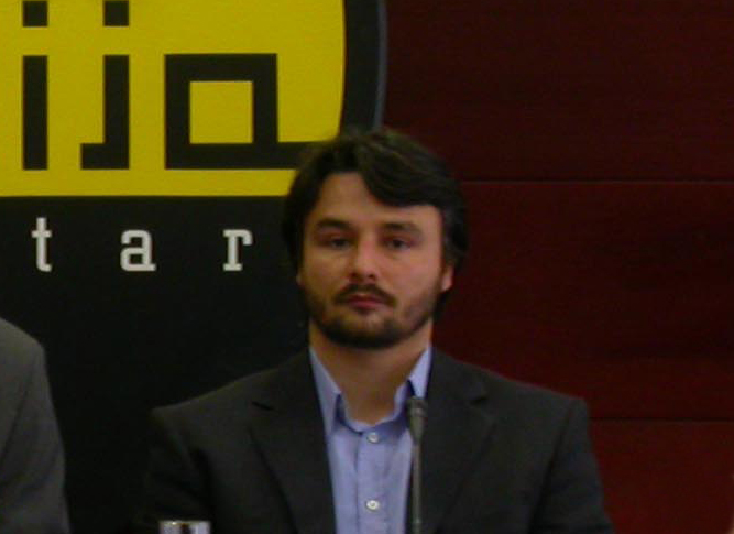 Vladan Glišić